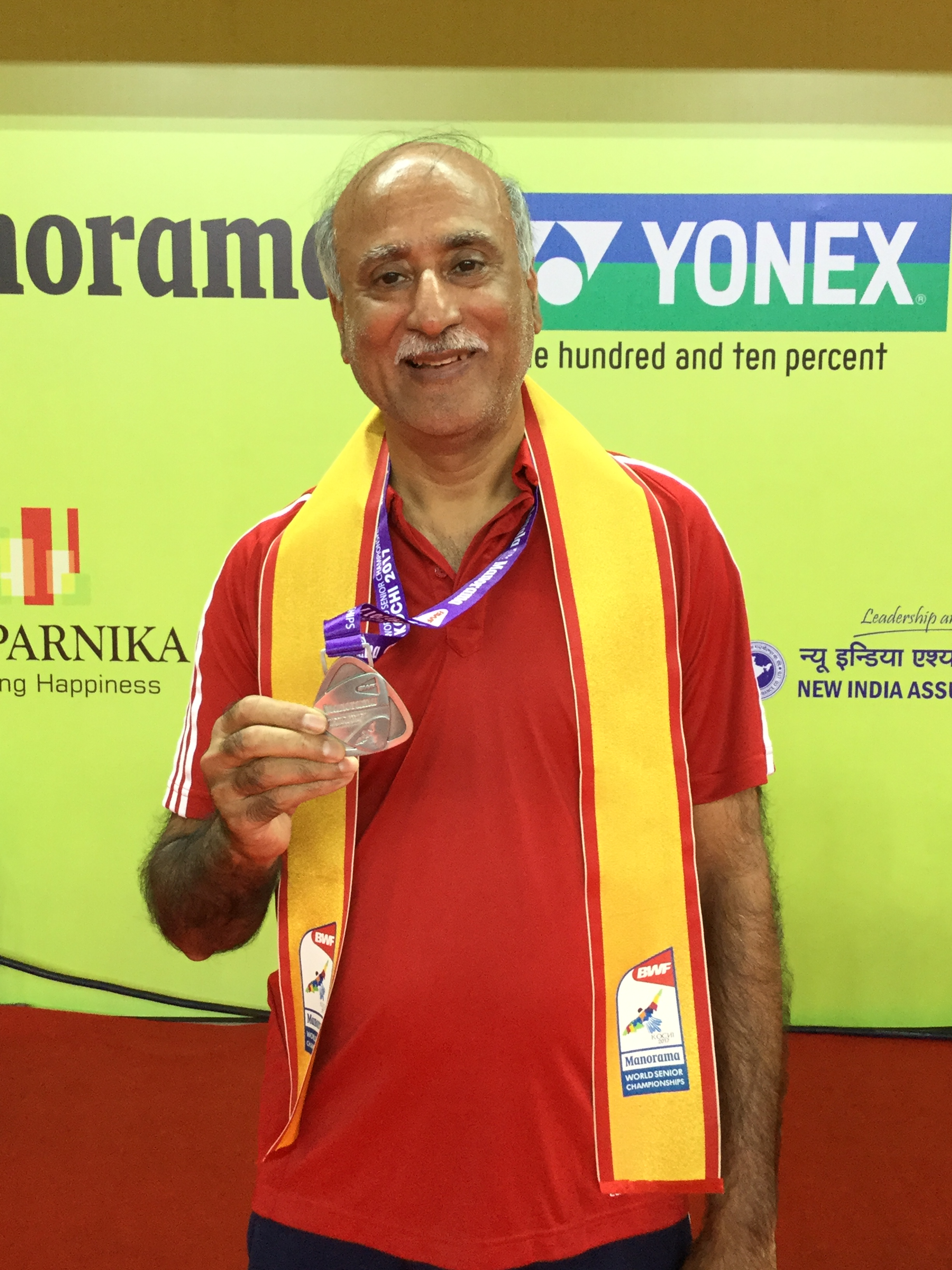 This is Tariq Farooq at the World Senior Championships 2017 in India, after winning the 2nd place in MD 60+ category. Other information Irene Matt was Tariq Farooq's mixed doubles partner in the world Seniors Badminton Championships. She made photos on request. She is not a professional photographer.